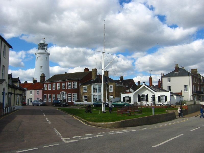 North Parade, Southwold, Suffolk, EnglandLighthouse